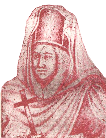 Constanzo_Giuseppe_Beschi came to India during 18th century. He (நவம்பர் 8, 1680 - பெப்ரவரி 4, 1747)did many landmarks in Tamil Philology. This is his image at Madurai in Tamil Nadu state, India.